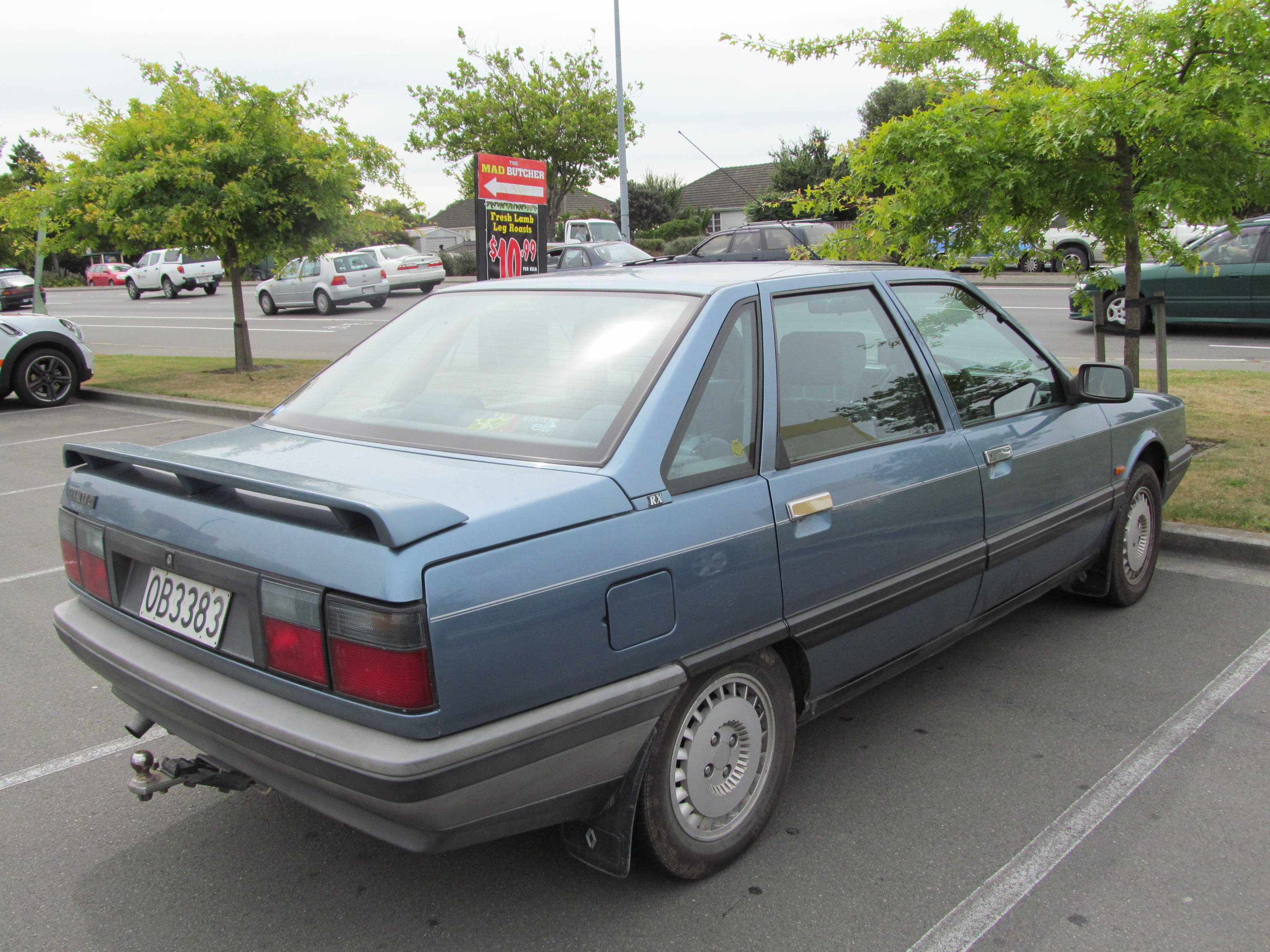 A very tidy car indeed. I can't believe this is now 26 years old - it doesn't even look 20!